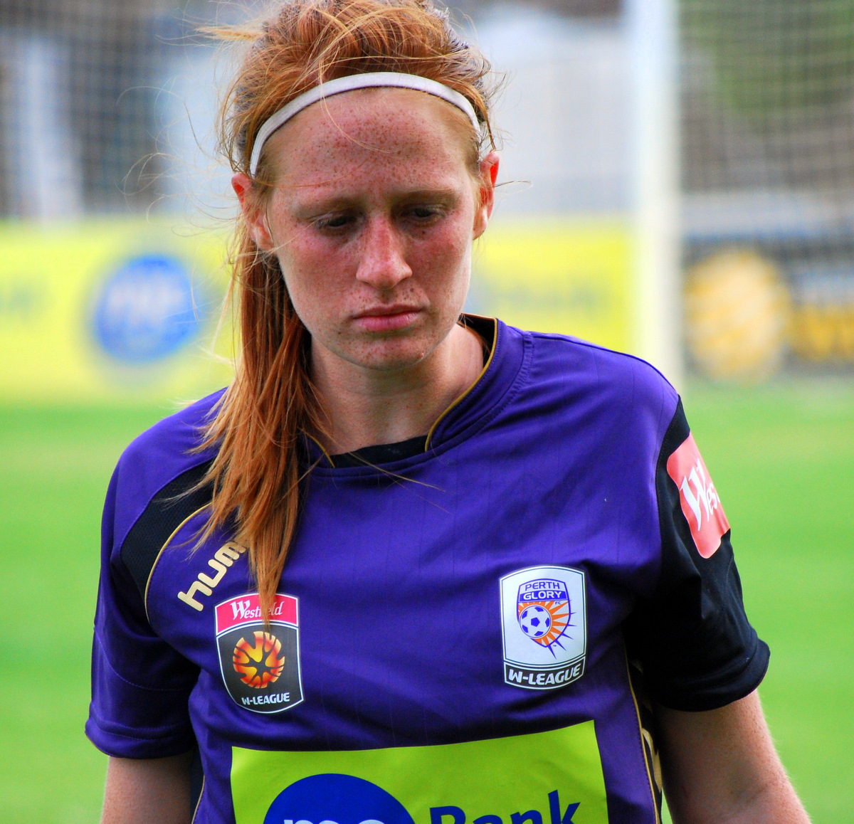 Shannon May suiting up for WA side Perth Glory in the W-League